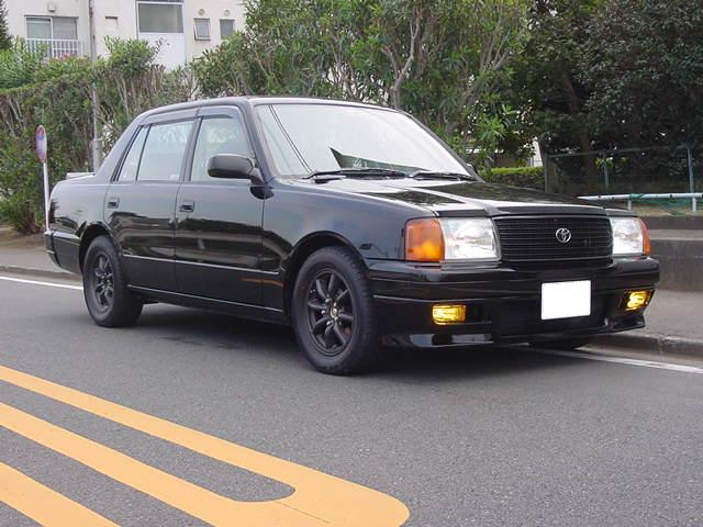 2003y TRD COMFORT GT-Z s/n3142 6th/59cars I am this car's owner.